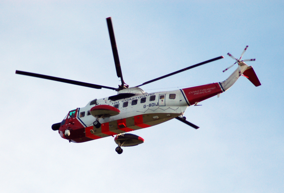 HM Coast Guard Sikorsky S-61N helicopter G-BDIJ taken October 2006 in Dorset by Ben W Bell.